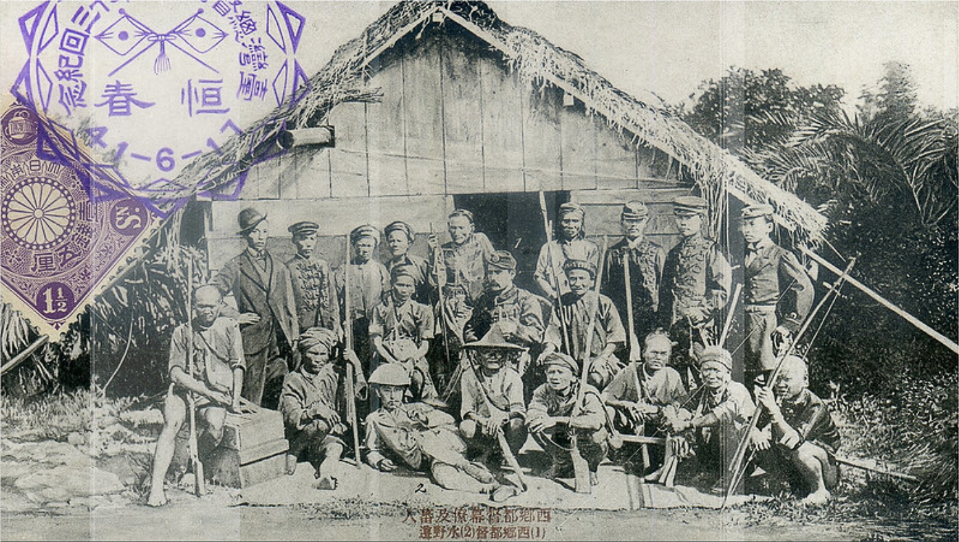 Commander-in-chief Saigo pictured with leaders of Seqalu (Native tribe). Public domain since pre-1950 Japanese photograph.